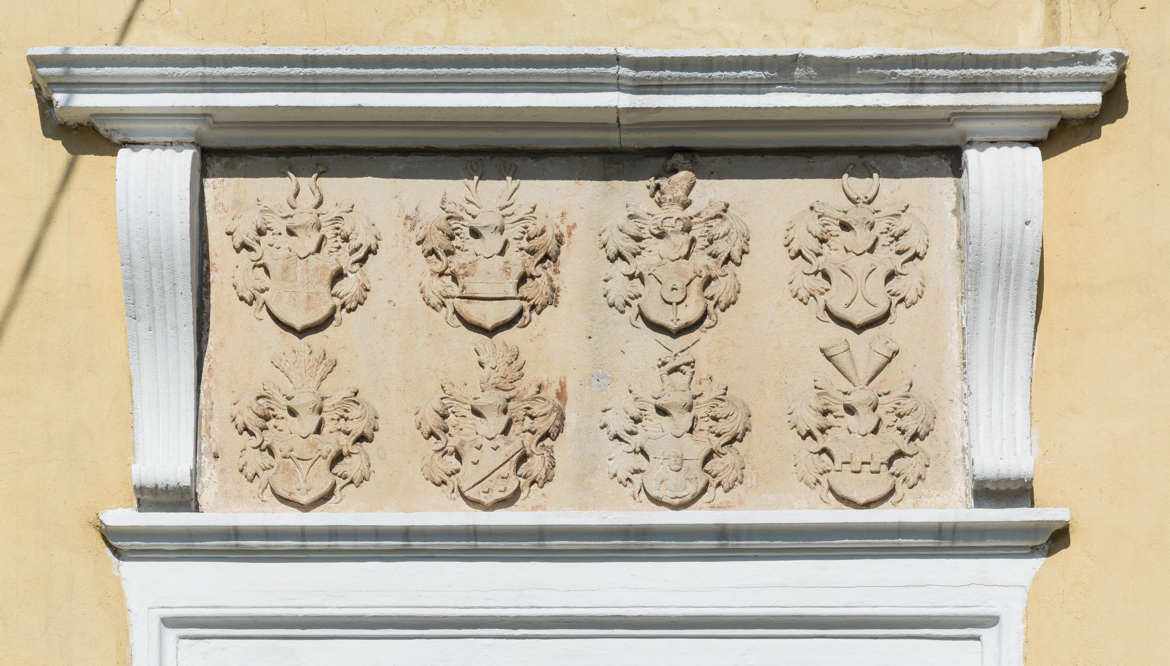 Middle Manor in Stara Łomnica, coats of arms of Habsburg and Pannwitz families